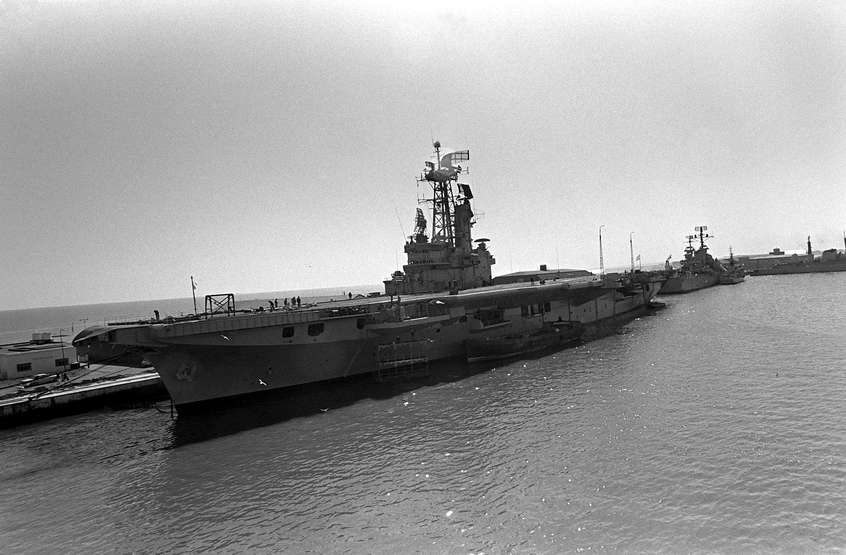 A port bow view of the Argentine aircraft carrier ARA Veinticinco de Mayo (V-2) in port during exercise Unitas XX.